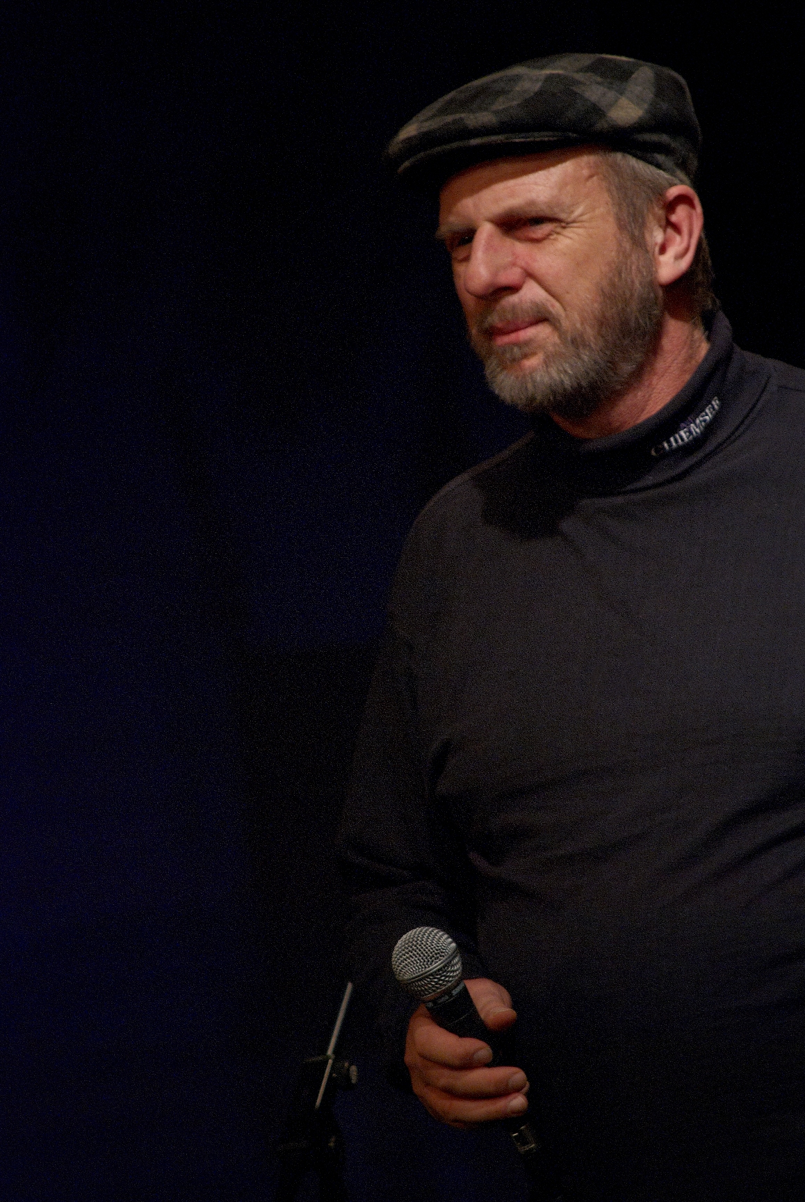 German flutist Dieter Weberpals at a concert in Nuremberg, Germany. Picture taken on December 3rd, 2010.